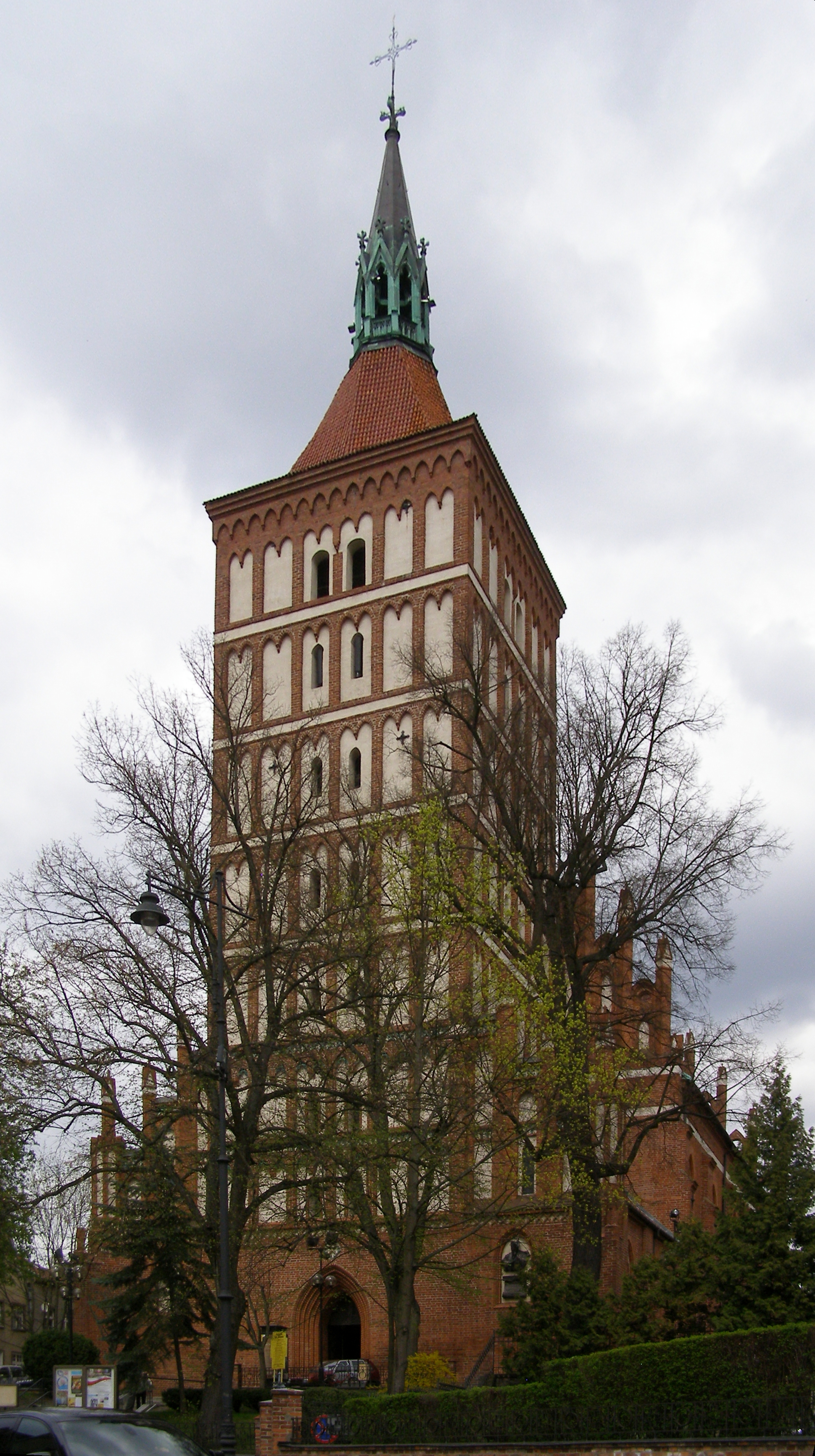 Olsztyn - cathedral